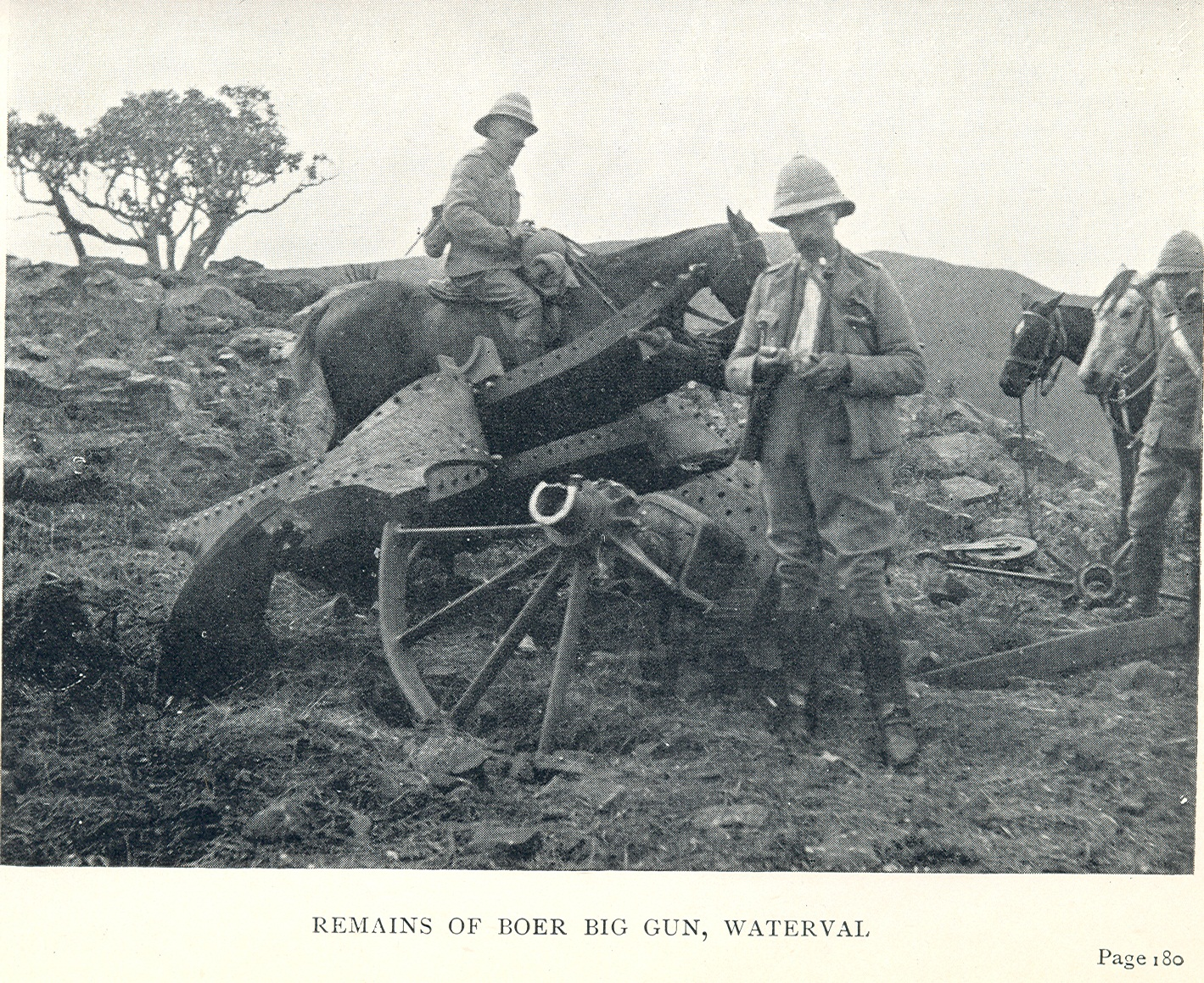 Photo of six inch Creusot gun (Long Tom) destroyed by Boers on Rietfontein